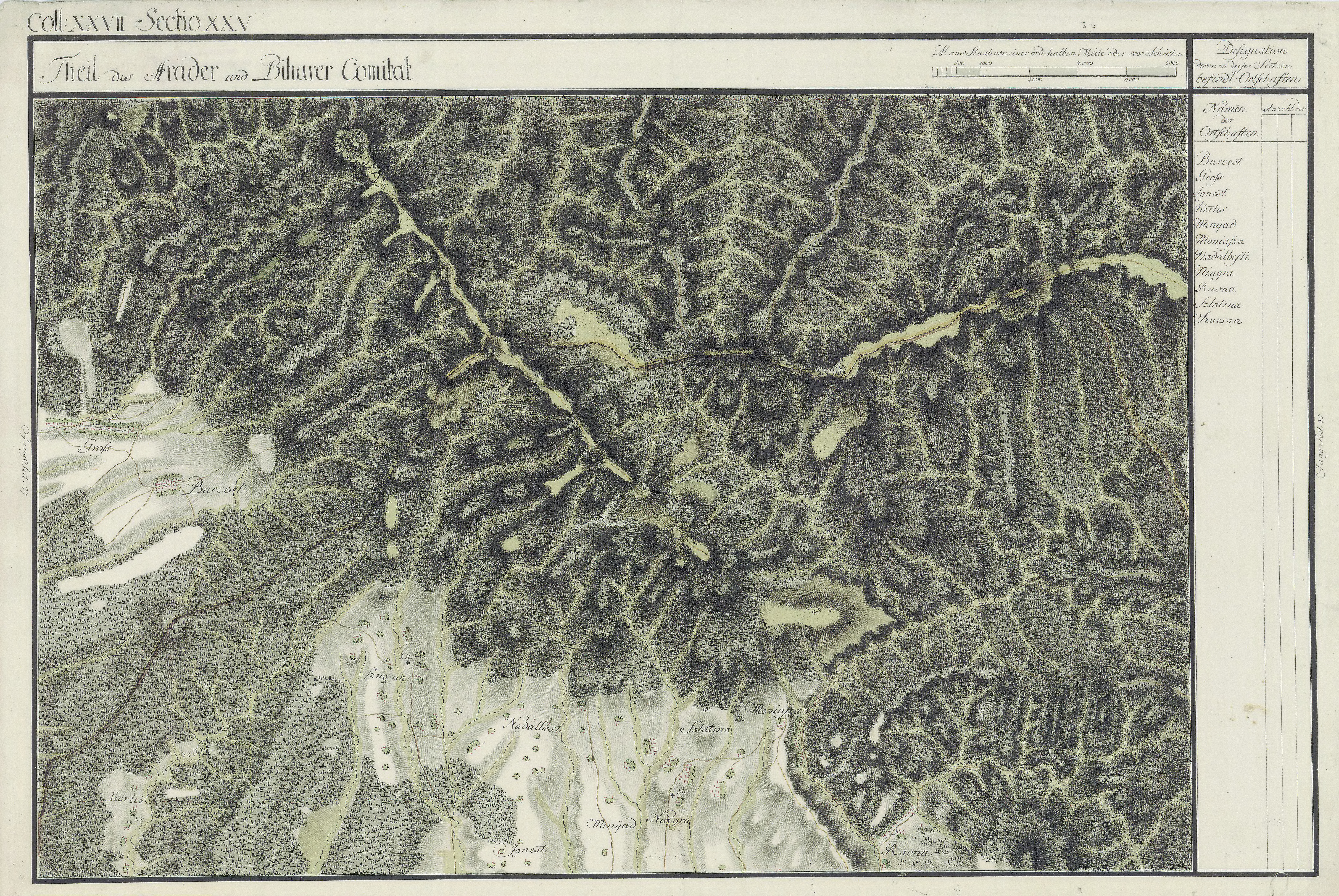 Arad County, 1782-85. Josephinische Landesaufnahme pg.27-25